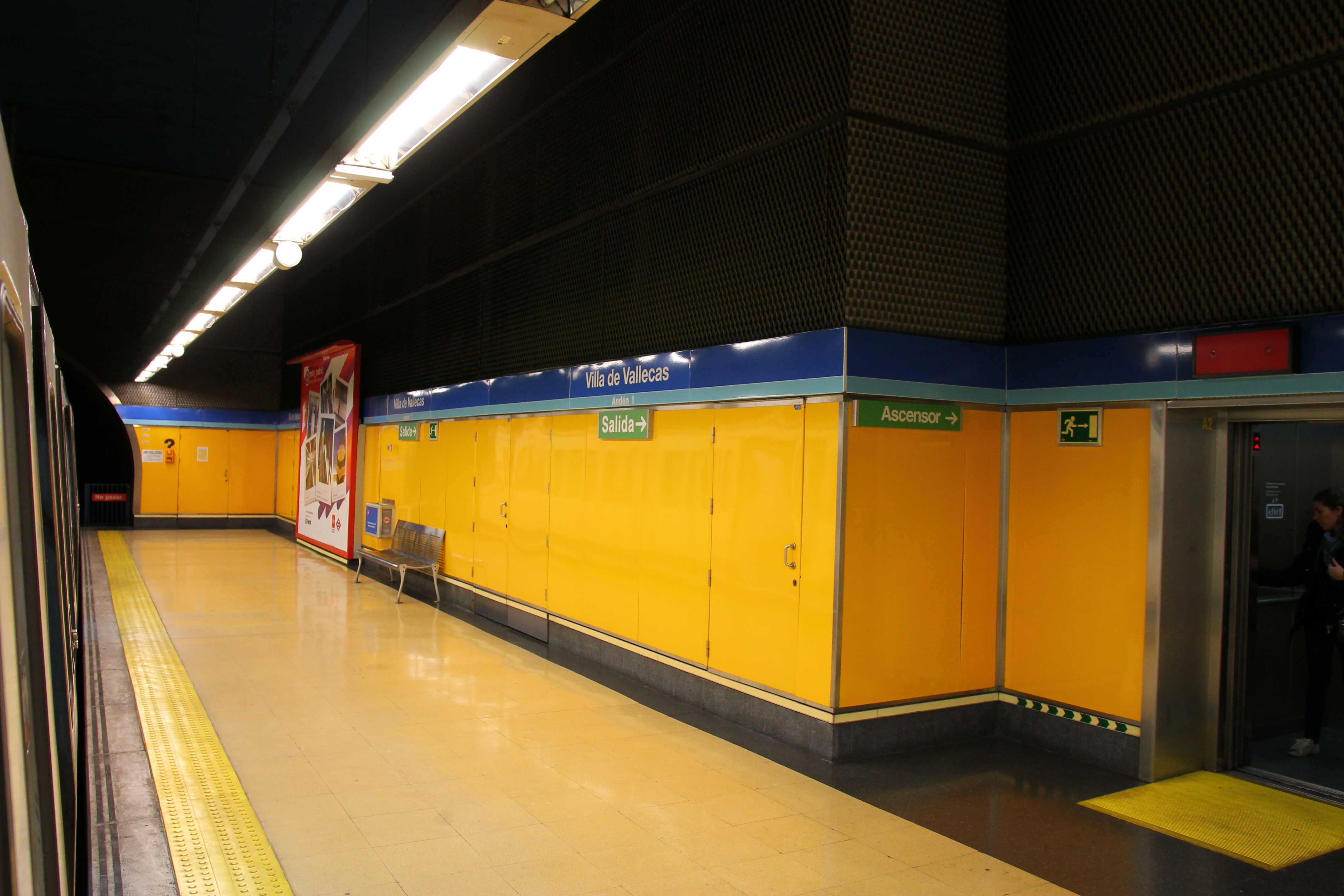 Villa de Vallecas station. Madrid Metro.